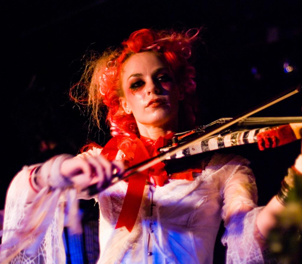 High resolution available at